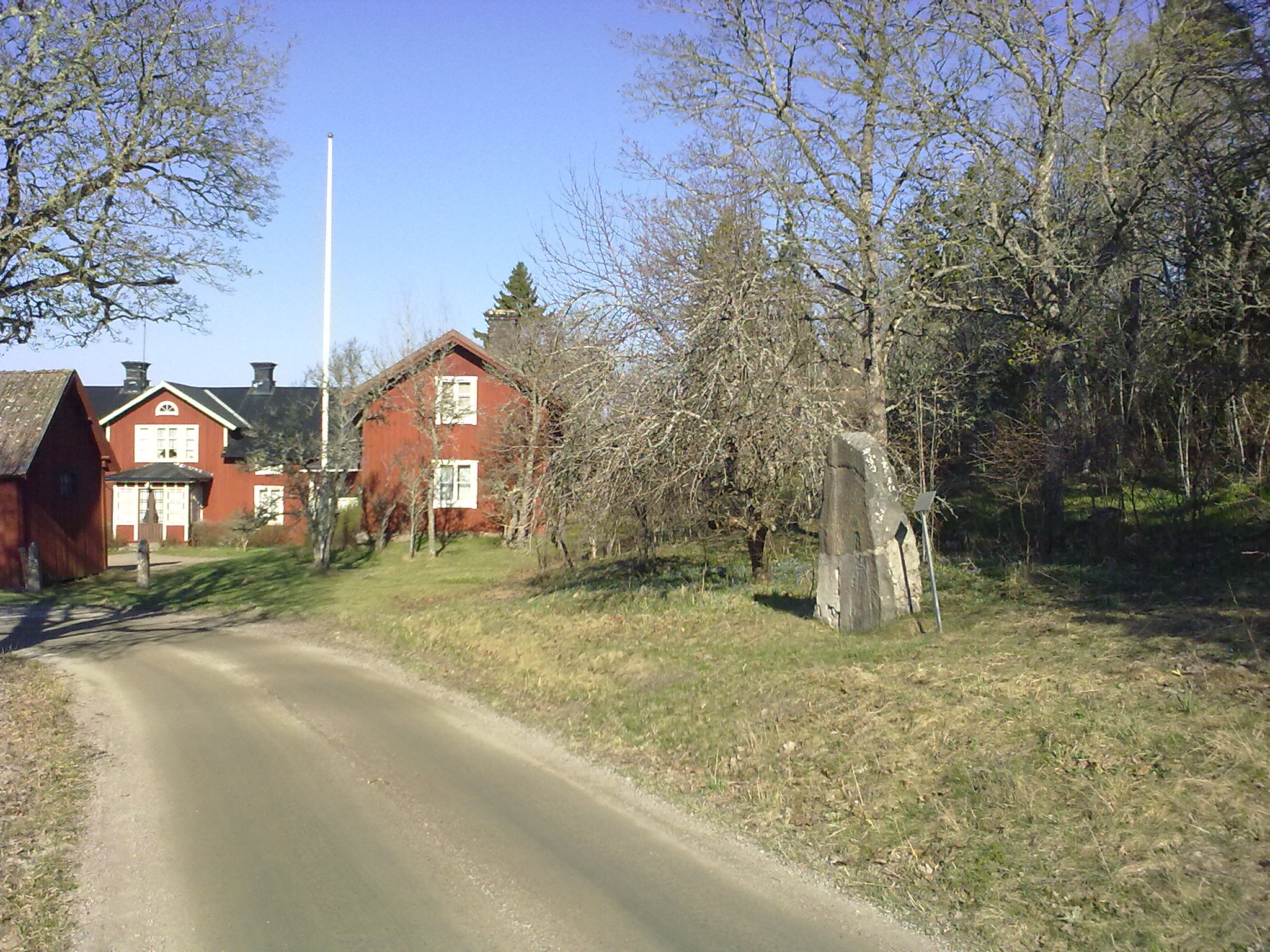 Uppland Runic Inscription 1146 and surroundings